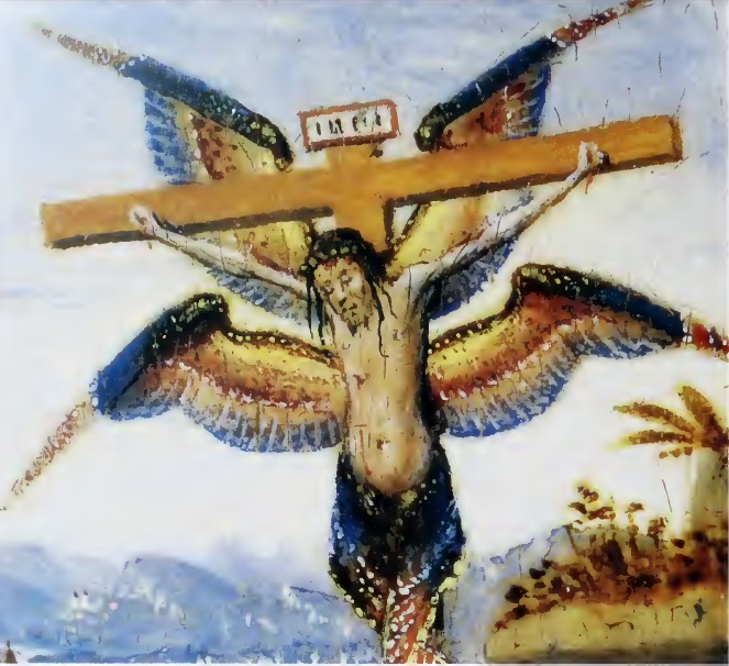 Detail, Saint Francis of Assisi Receiving the Stigmata, Philadelphia Museum of Art